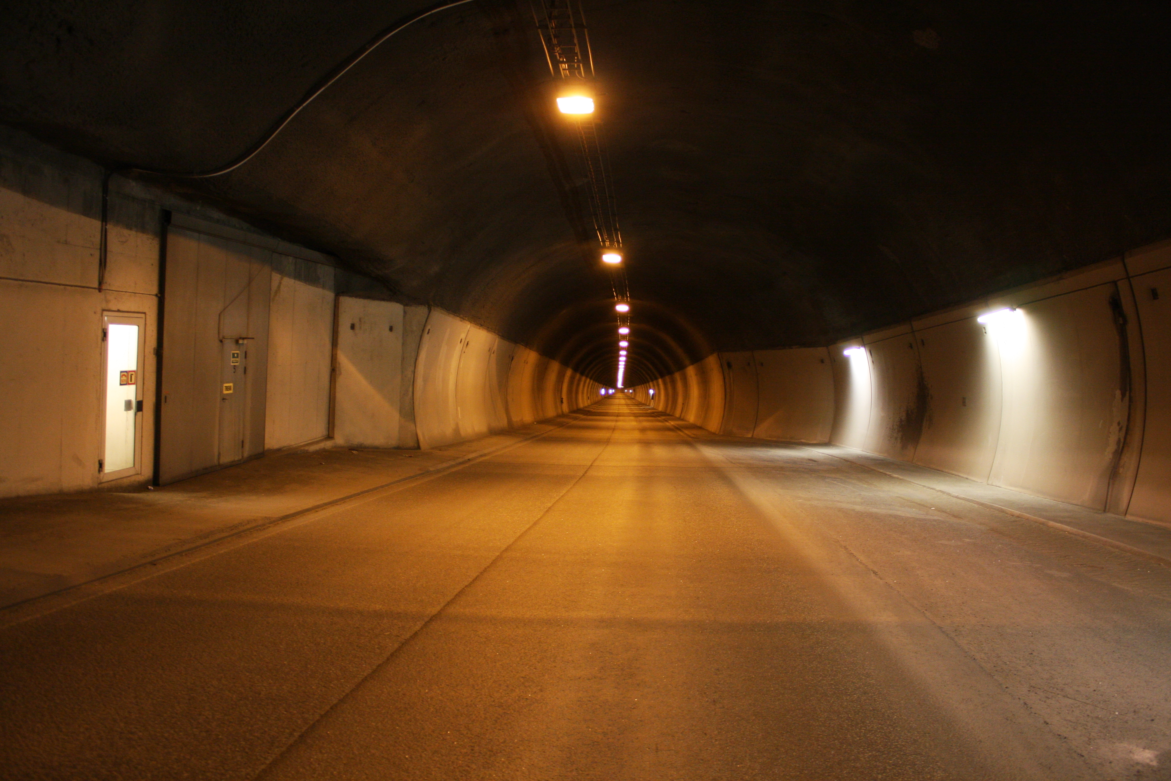 Tromsøysundtunnelen (Undersea tunnel) on the european route E8 in Tromsø, Norway. The photo is of the inside of the tube towards Tromsøya (island).